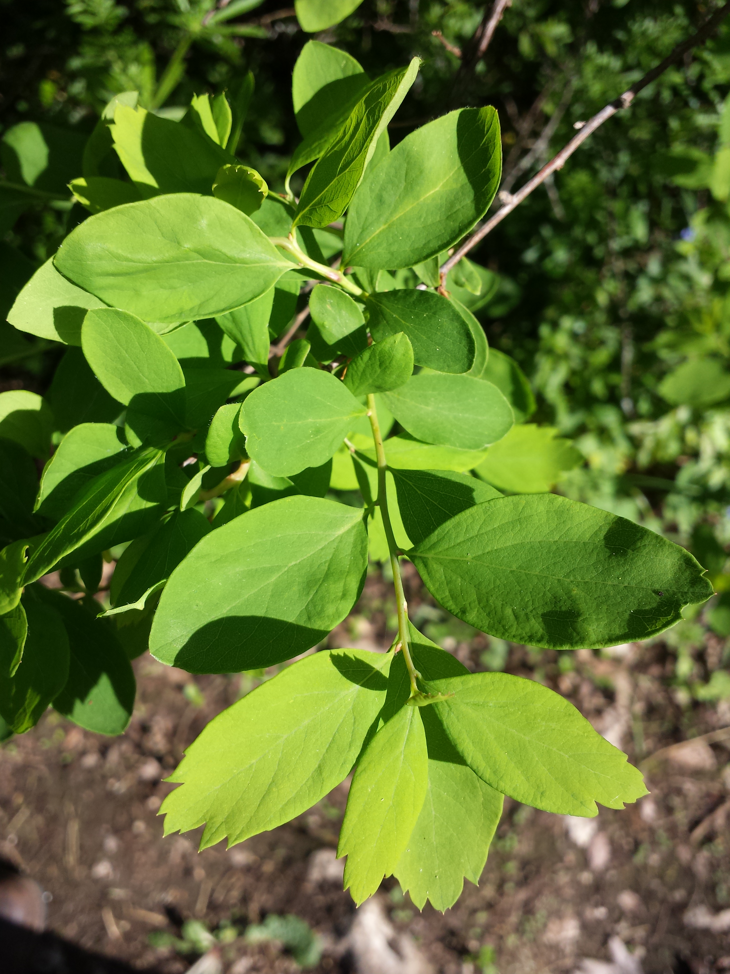 Branch with leaves Taxonym: Spiraea media ss Fischer et al. EfÖLS 2008 ISBN 978-3-85474-187-9 Location: Schlossberg near Winzendorf, district Wiener Neustadt, Lower Austria - ca. 500 m a.s.l. Habitat: xerotherme wood